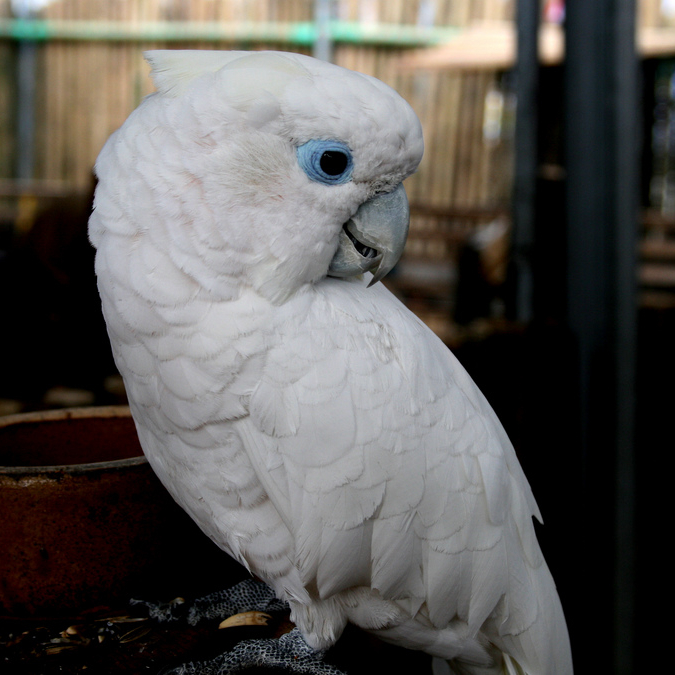 Ducorps' Cockatoo (Cacatua ducorpsii) also known as the Solomon Corella or Broad-crested Corella